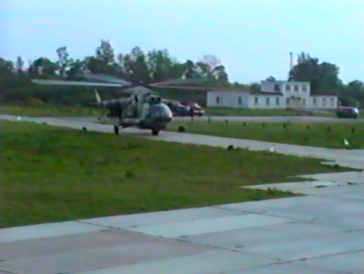 Taxiing of Mi-8PPA helicopter on Jelgava airfield. Screenshot from a video made by my father Boris Mikhed in 1990 (the exact date is unknown). Airbase head building is seen behind.